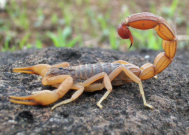 Hottentotta tamulus, The Indian red scorpion from Mangaon, Maharashtra, India